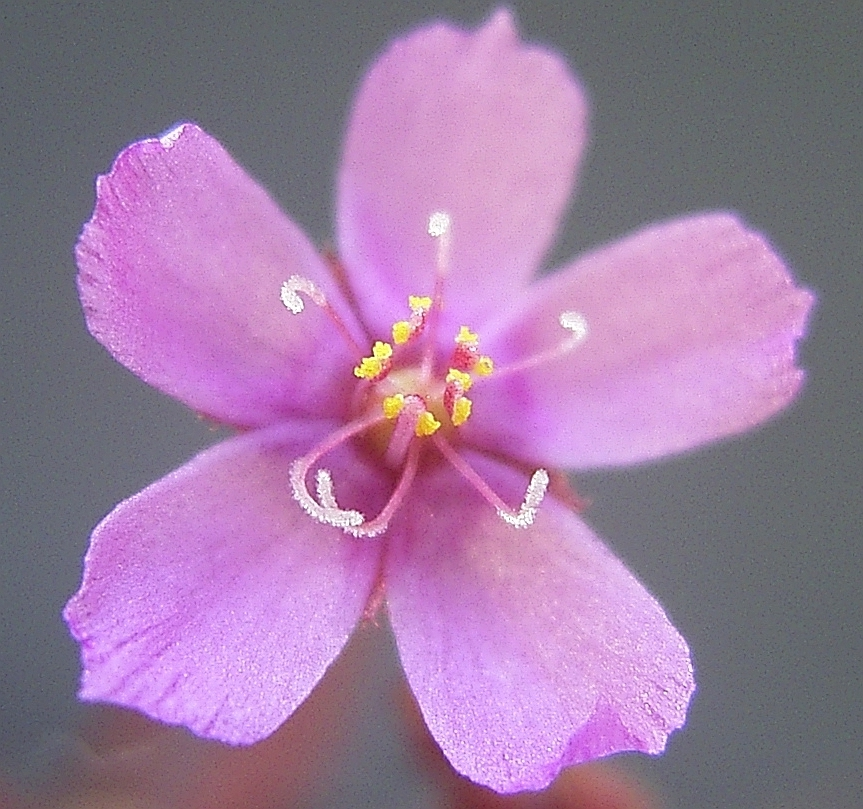 Drosera hartmeyerorum flower Author: Denis Barthel